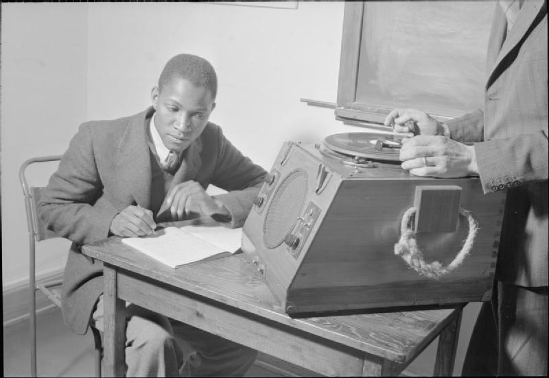 Colonial Students in Great Britain- Students at the School of Oriental and African Studies, London, England, UK, 1946 Mr S H Chileshe from Kasama, Northern Rhodesia, listens to a record during a linguistics lesson at the School of Oriental and African Studies (SOAS). According to the original caption, Mr Chileshe was educated at Waddilove Methodist Mission in Southern Rhodesia and had been a pupil teacher trainer in Northern Rhodesia.